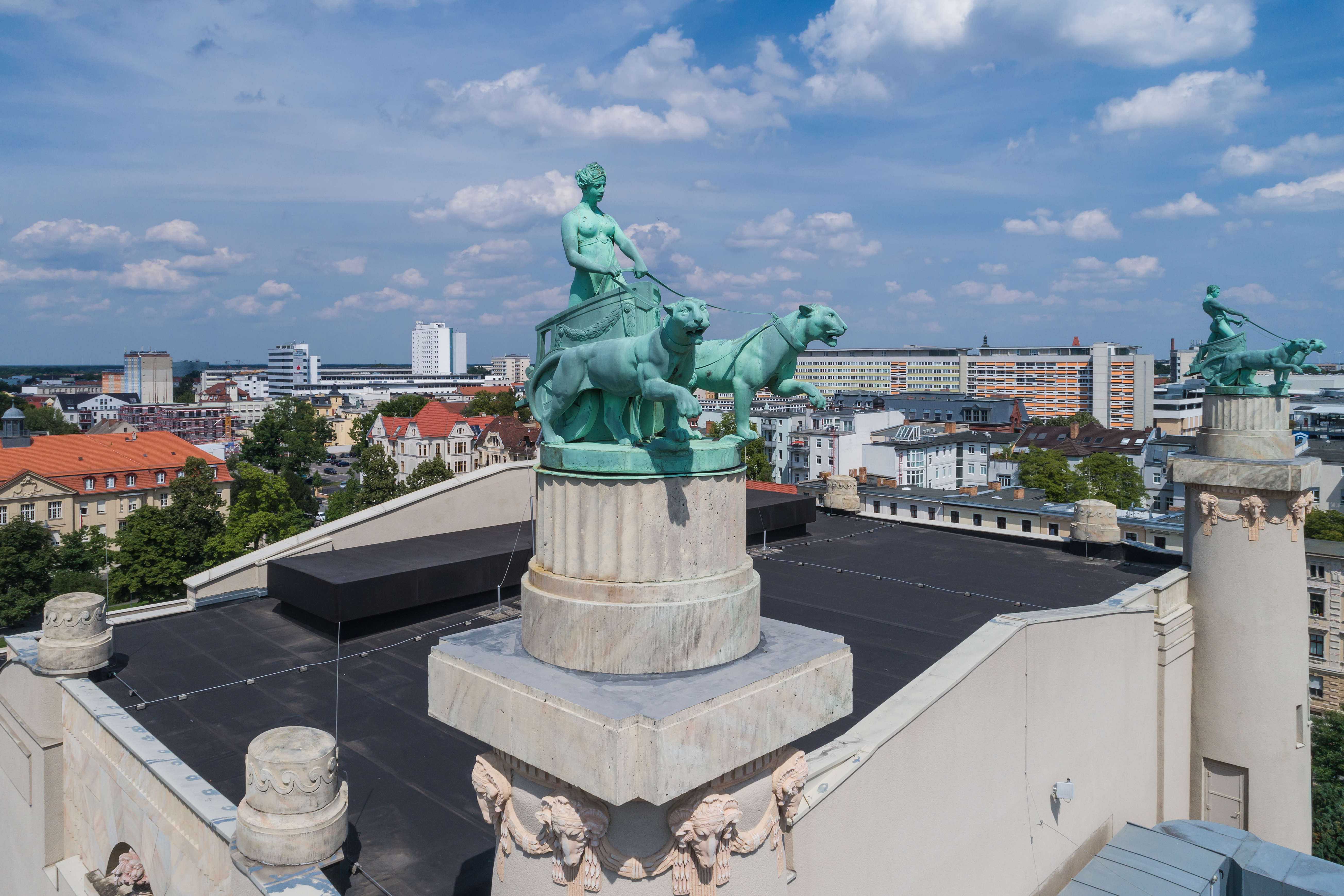 Building of the Staatstheater in Cottbus (Germany)